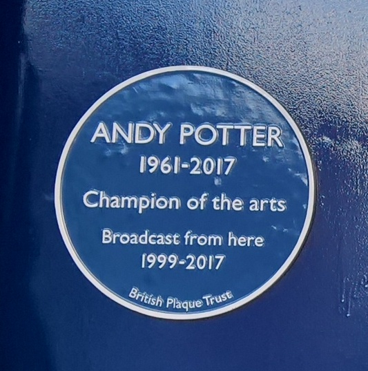 Blue Plaque for Andy Potter on BBC Radio Derby Building, Derby, England